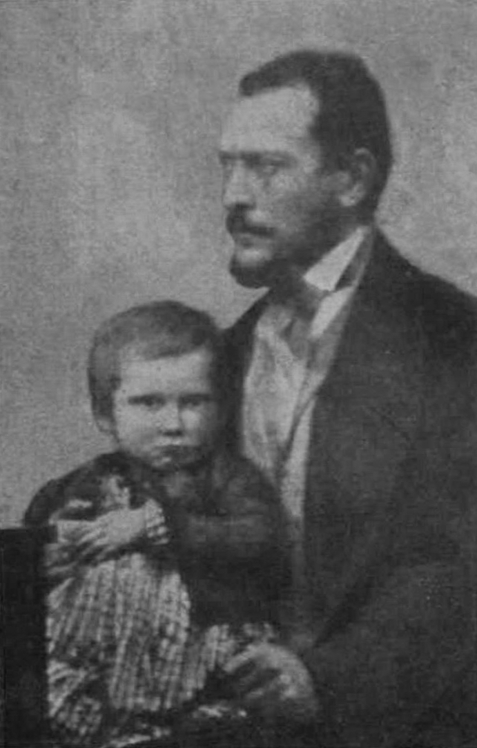 Artúr Görgey